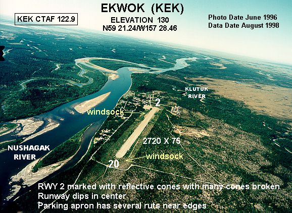 Annotated aerial photograph (oblique north) of Ekwok Airport (IATA/FAA: KEK) in Ekwok, Alaska, United States